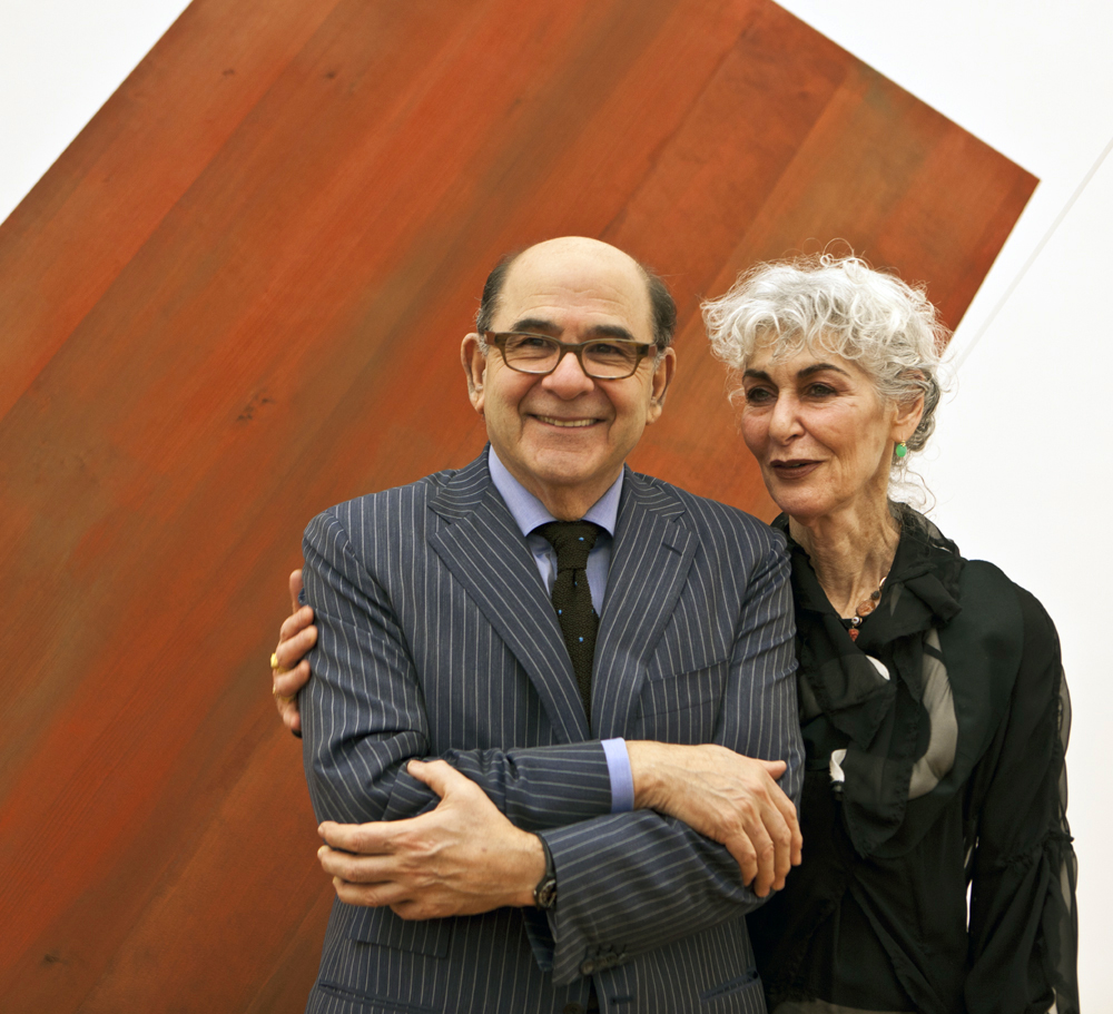 Joel Shapiro (left) in Cologne, Museum Ludwig